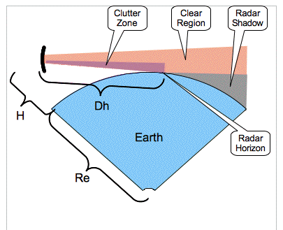 Low elevation littoral area of radar performance.